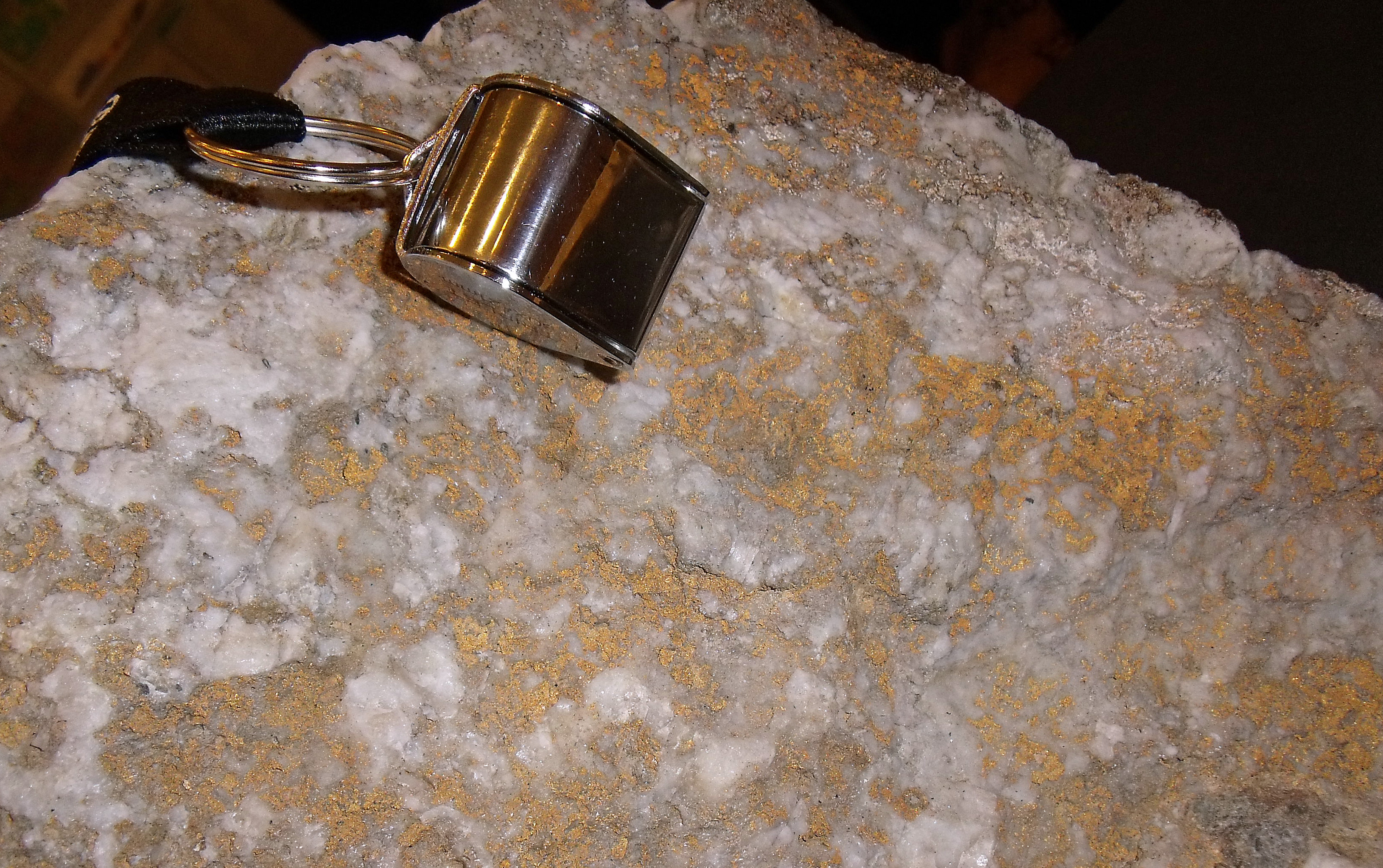 Quartz fracture laced with spectacular visible gold. Boulder is 1 foot long from an outcropping vein found by Yukon prospector Alex Macmillan of Watson Lake. Property is available for option under the name of Hyland Gold. This find could become incentive for a staking rush in a whole new area in the southern Yukon. Specimen displayed in Yukon Room at the 2010 Vancouver Roundup. Location The Hyland property is situated in the Watson Lake Mining District of South Eastern Yukon Territory, Canada. It is located 70 kilometres northeast of the village of Watson Lake and is centered at latitude 60º 30' N and longitude 127º 50' W. The property is accessible by helicopter, float plane and 4x4 roads.